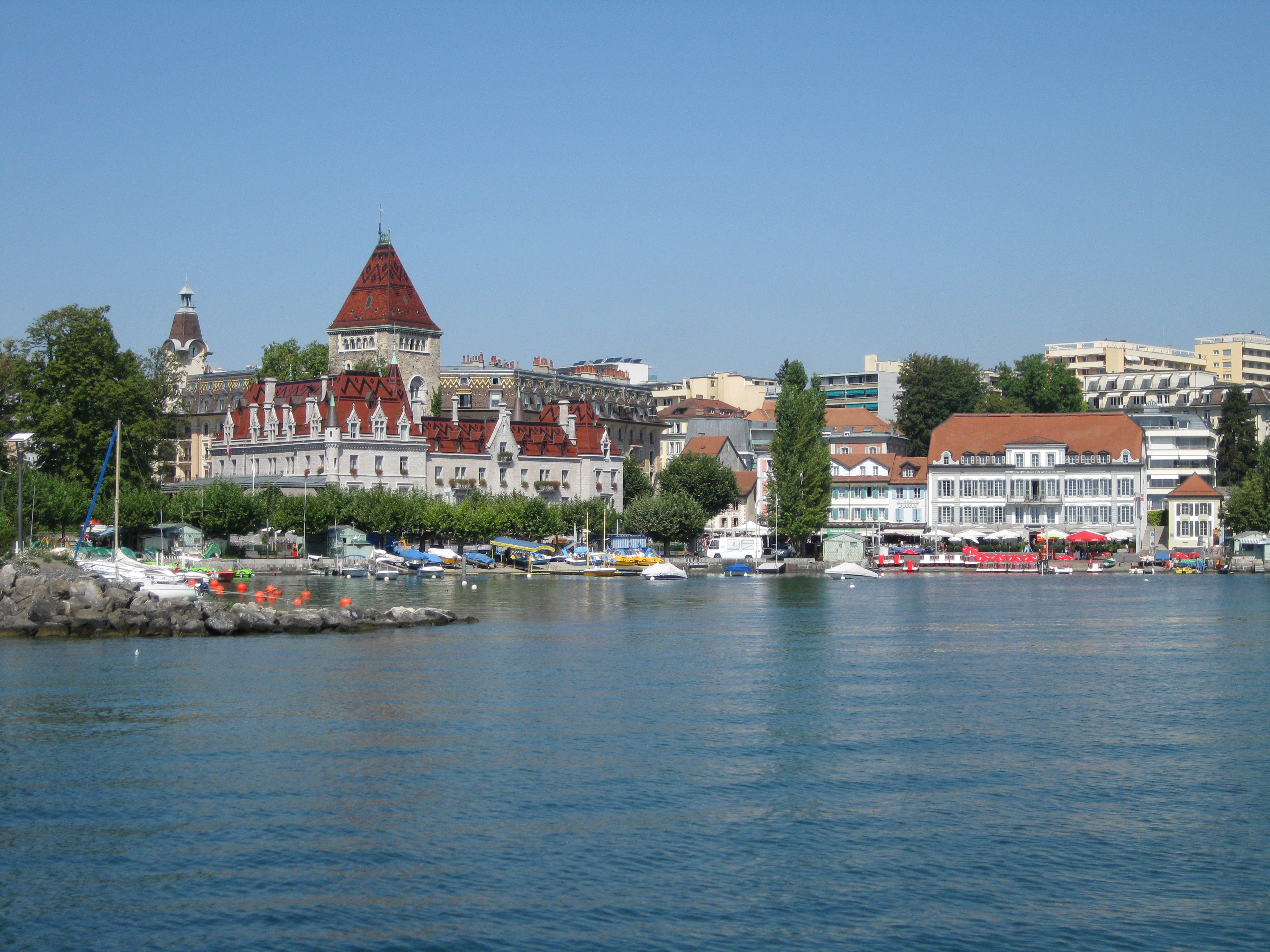 Around the lake of Geneva, Switzerland / France. Location see geotag.